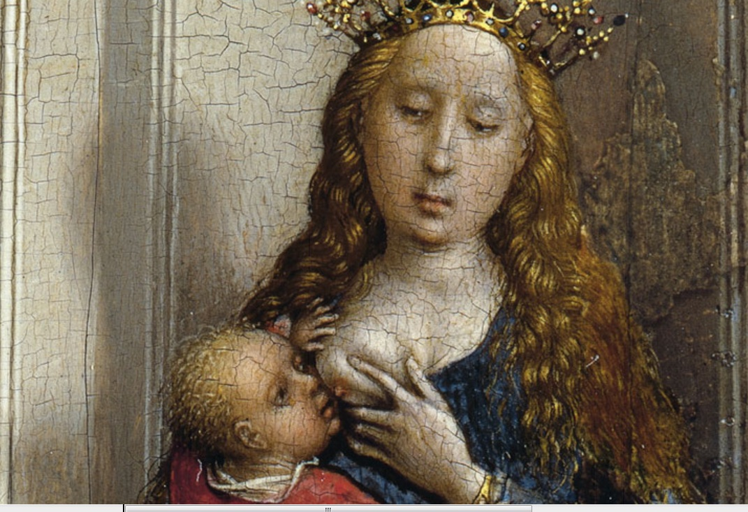 Detail of Virgin and Child Enthroned